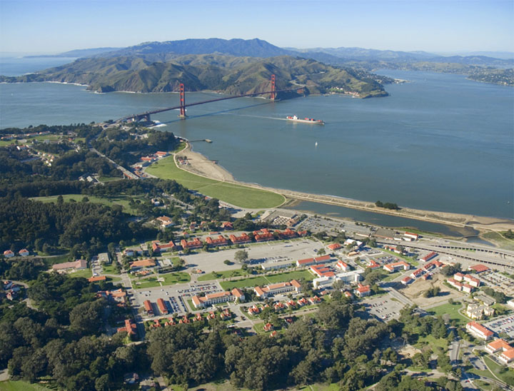 Aerial view of the Presidio of San Francisco, the Golden Gate and bridge, and the Marin Headlands and Mount Tamalpais (in backround) - Northern California, U.S.